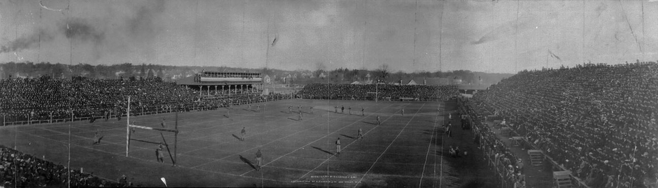 The Ferry Field, Michigan Wolverines football venue, during a game v. Wisconsin. 17,000 people attended the match.